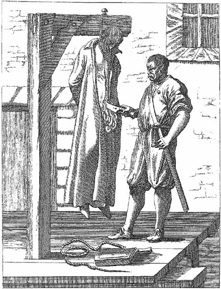 Picture of punishment called Hanged, drawn and quartered